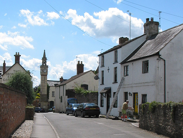 Station Road, Newnham on Severn Heading for High Street.